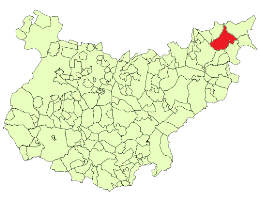 Herrera del Duque, spanish municipality in the province of Badajoz, Extremadura.